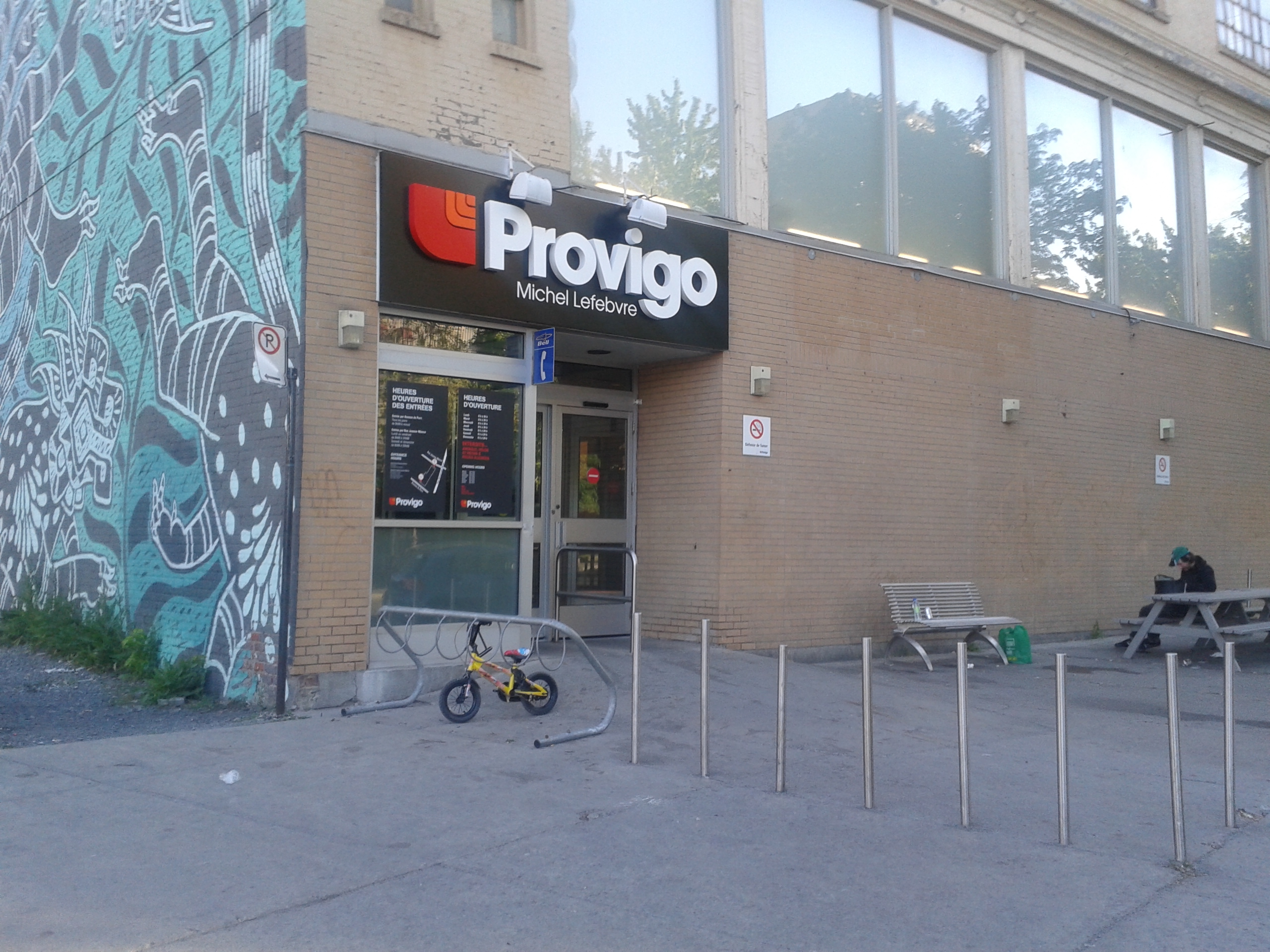 Provigo store with current logo on Parc Ave. corner Sherbrooke St. photographed in Montréal, Québec, Canada.